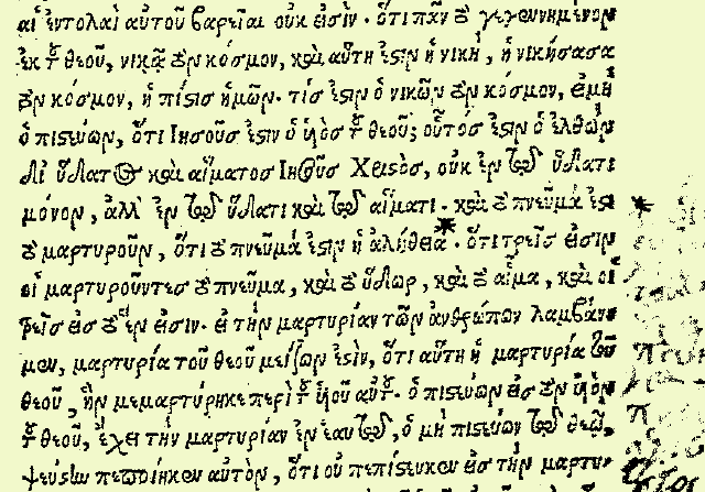 Excerpt from a New Testament copy published at 1524 (or 1526, Tης Θείας Γραφής Παλαιάς δηλαδή και Νέας Άπαντα (Divinae scripturae veteris nouveq[ue] omnia), based on the second edition of the Erasmus' New Testament. It is obvious the missing Comma Johanneum. The source says: "The 3rd ed. of the complete Greek Bible, edited by J. Lonicerus. The New Testament first appeared in 1524; it was re-issued in 1526 to form v. 4 of this complete Bible, but the date on the t.p. was never changed from 1524 to 1526 The Old Testament follows the Aldine Bible of 1518."